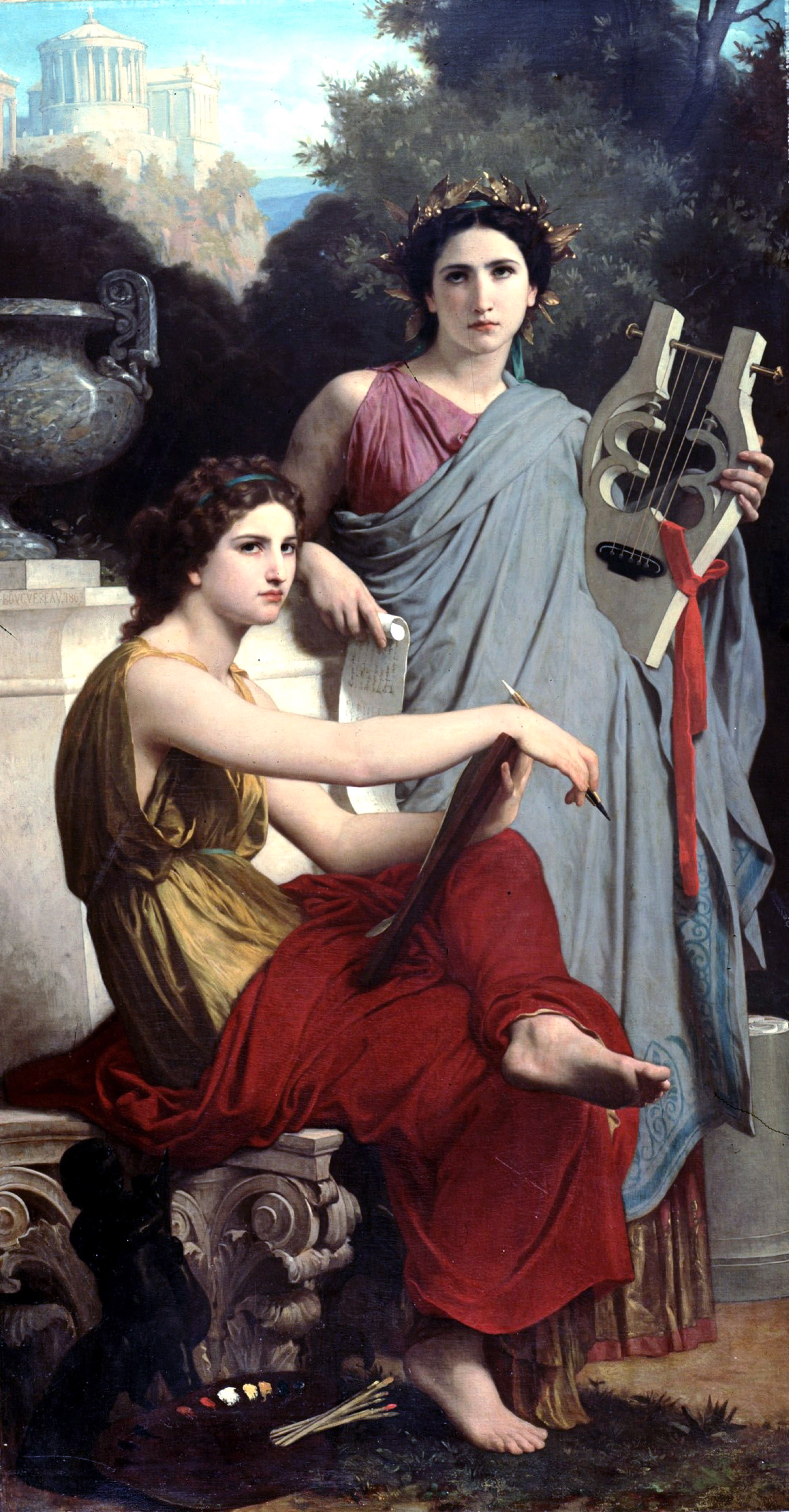 Art and Literature by William Adolphe Bouguereau